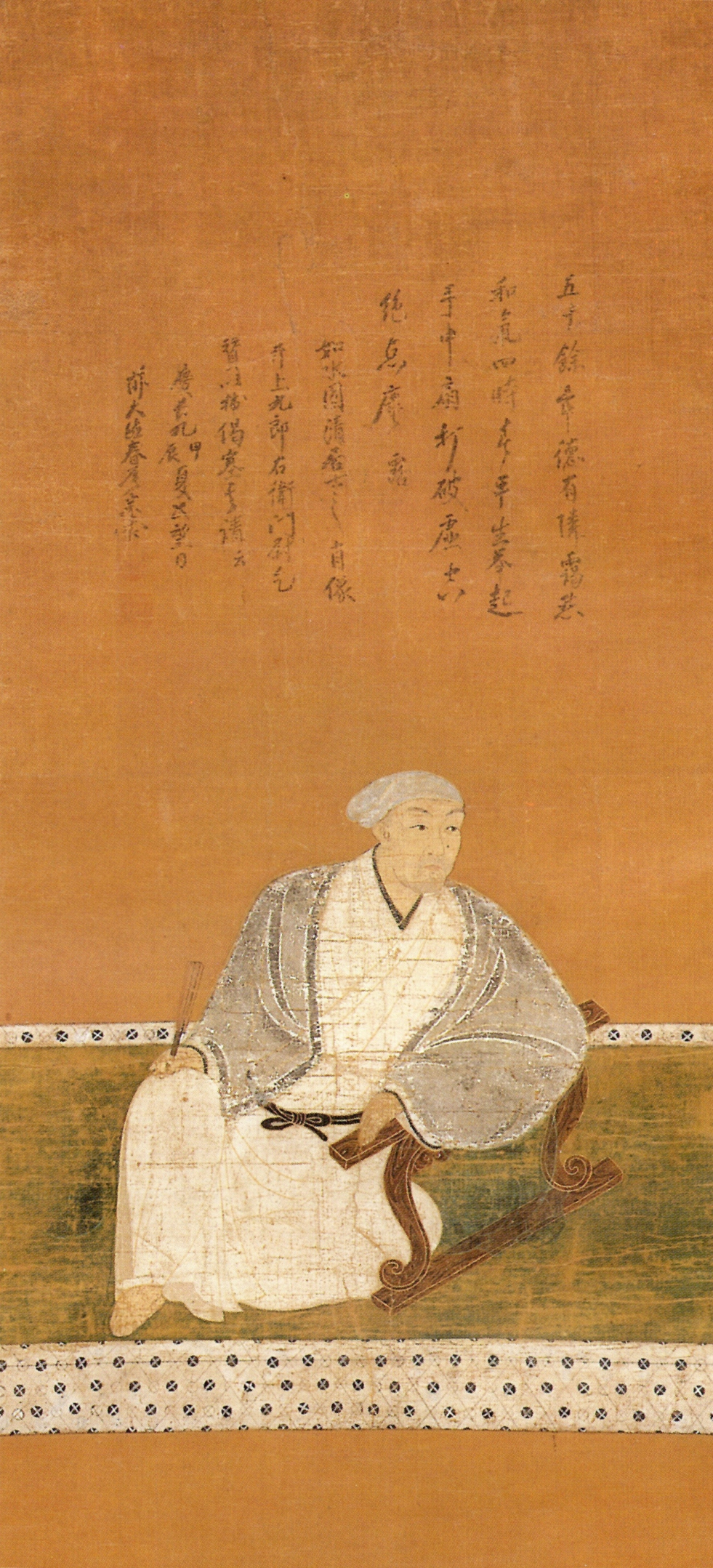 画名「如水居士像」。黒田孝高（黒田官兵衛、黒田如水）。日本の戦国時代から江戸時代にかけての武将。大名。豊臣秀吉の軍師。Kuroda Yoshitaka (December 22, 1546-1604) was a Japanese daimyo of the late Sengoku through early Edo periods. Renowned as a man of great ambition, he was a chief strategist under Toyotomi Hideyoshi.